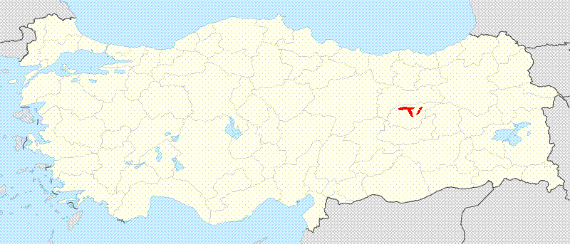 Location map of Turkey Equirectangular projection, N/S stretching 120 %. Geographic limits of the map: * N: 42.5° N * S: 35.5° N * W: 25.4° E * E: 45.0° E